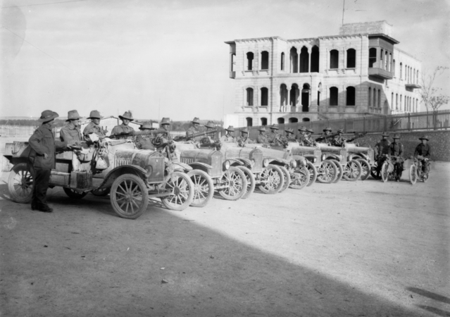 Photo of No. 1 Australian Light Car Patrol at Aleppo. The No. 1 Australian Light Car Patrol at Aleppo Railway Station. The men are in Model T Ford vehicles, some of which have Lewis machine guns mounted on the car, and several are on motorcycles Other information Copyright expired